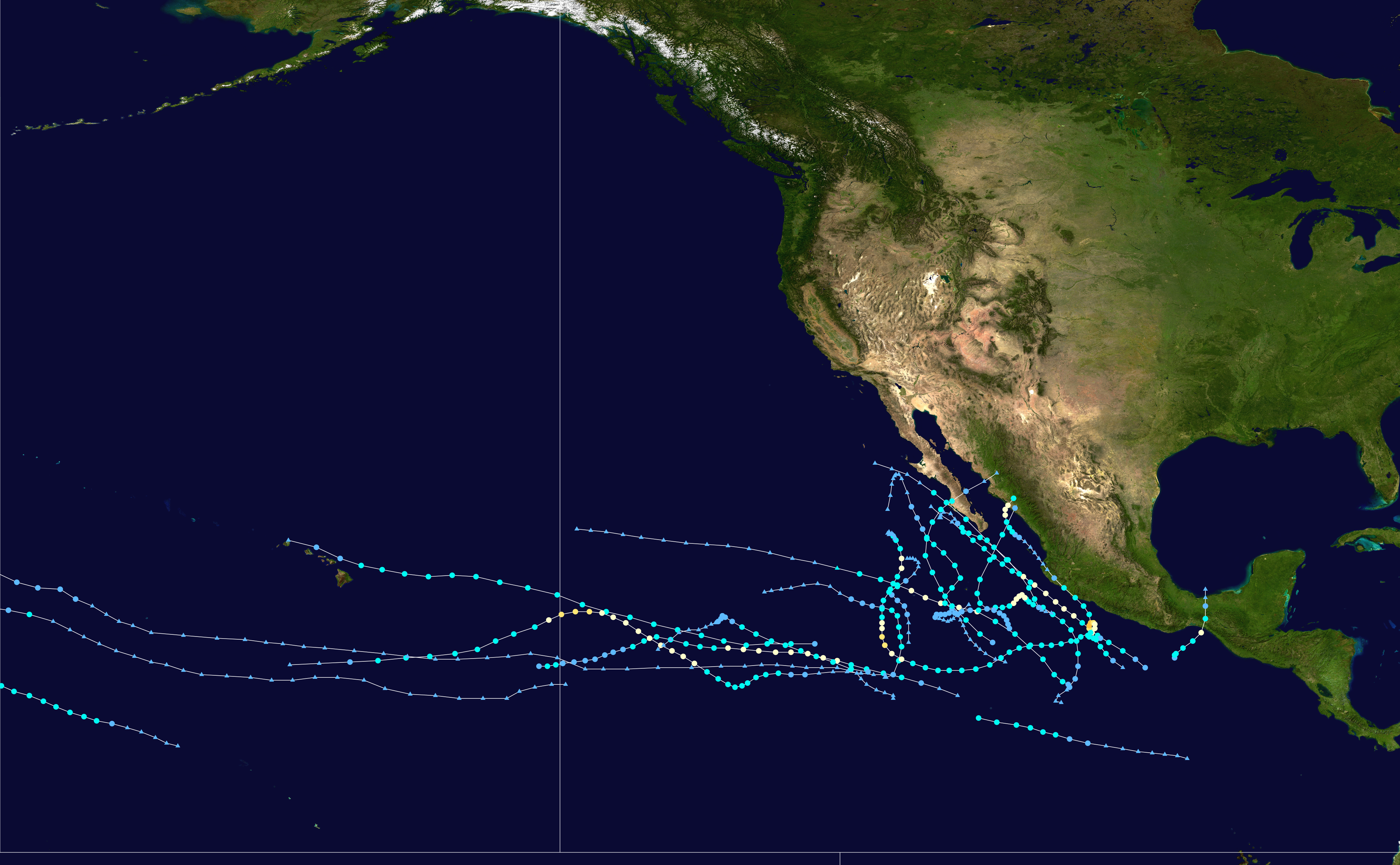 This map shows the tracks of all tropical cyclones in the 2013 Pacific hurricane season. The points show the location of each storm at 6-hour intervals. The colour represents the storm's maximum sustained wind speeds as classified in the Saffir-Simpson Hurricane Scale (see below), and the shape of the data points represent the type of the storm. Saffir–Simpson scale Tropical depression≤38 mph≤62 km/h Category 3111–129 mph178–208 km/h Tropical storm39–73 mph63–118 km/h Category 4130–156 mph209–251 km/h Category 174–95 mph119–153 km/h Category 5≥157 mph≥252 km/h Category 296–110 mph154–177 km/h Unknown Storm type Tropical cyclone Subtropical cyclone Extratropical cyclone / Remnant low / Tropical disturbance / Monsoon depression